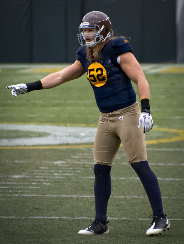 Lambeau Field, December 5, 2010. Photo by Mike Morbeck.